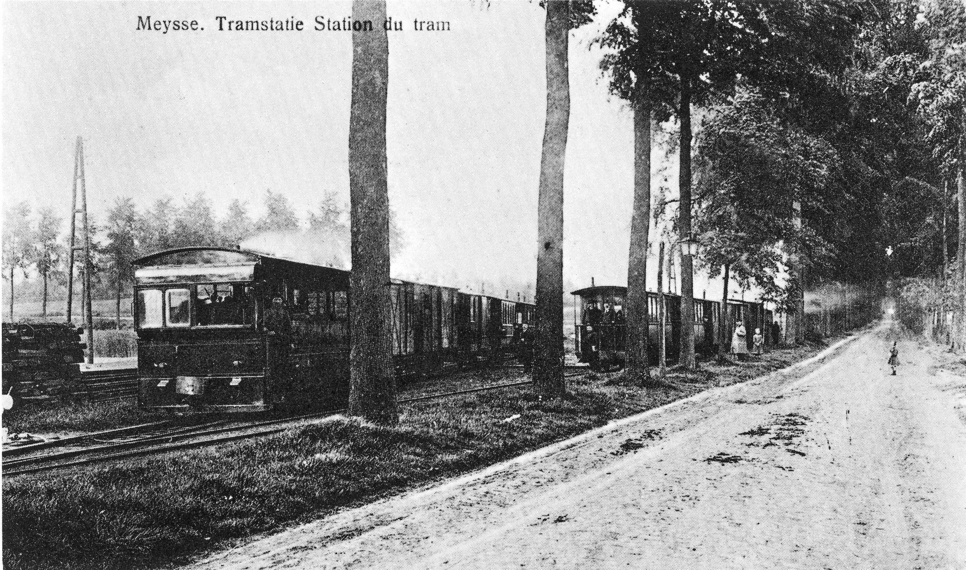 Tramstation of Meise where two steamtrams cross.